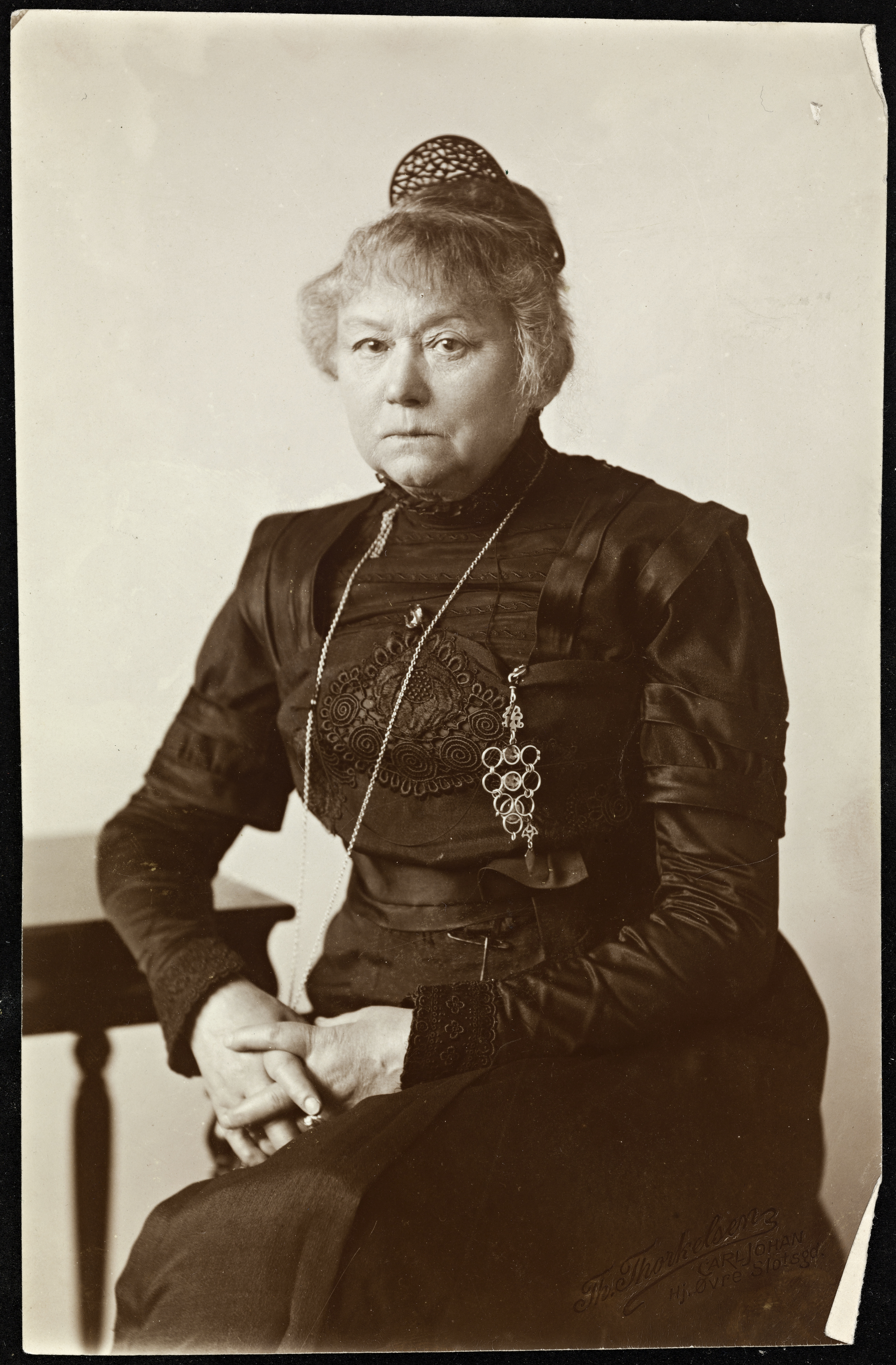 Beskrivelse / Description: Harriet Backer var maler. Dato / Date: ukjent / unknown Fotograf / Photographer: Th. Thorkelsen Digital kopi av original / Digital copy of original: s/h papirpositiv Eier / Owner Institution: Nasjonalbiblioteket / National Library of Norway Lenke / Link: Bildesignatur / Image Number: blds_06029